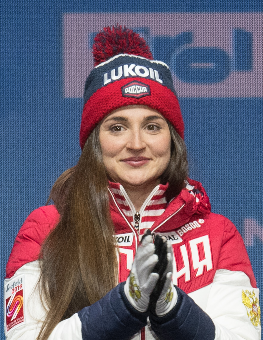 FIS Nordic Wolrd Ski Championships Seefeld 2019 - Medal Ceremony at the Medal Plaza. Picture shows Yuliya Belorukova (RUS).